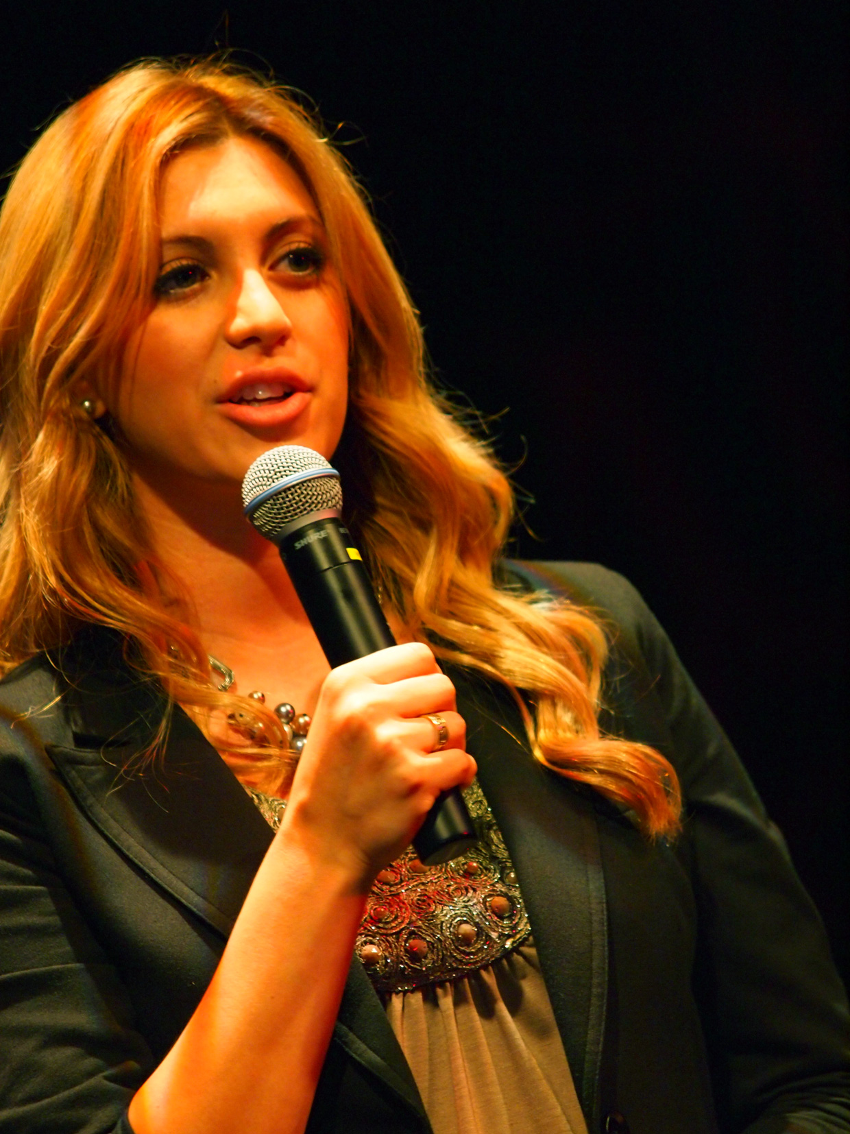 Laila Mickelwait speaking at a screening of Nefarious: Merchant of Souls in an attempt to convince governments to make laws analogous to Sweden's Sex Purchase Act that criminalizes the purchasing rather than the selling of sex.